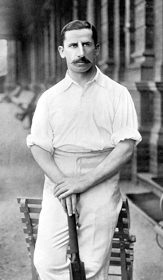 Scan of cricketer Sydney Evershed